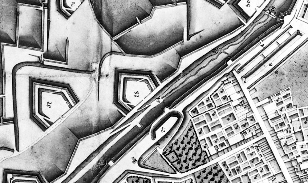 Maastricht, the Netherlands. Detail of a map showing the western part of the city in 1749. The map by French military engineer Jean-Baptiste Larcher d'Aubencourt was used to built the Maquette of Maastricht (1752), now in the Musée de Beaux Arts in Lille, France. Here the area around the cavalier Hoog Frankrijk between Brusselsepoort and Lindenkruispoort, where today Herbenusstraat runs.